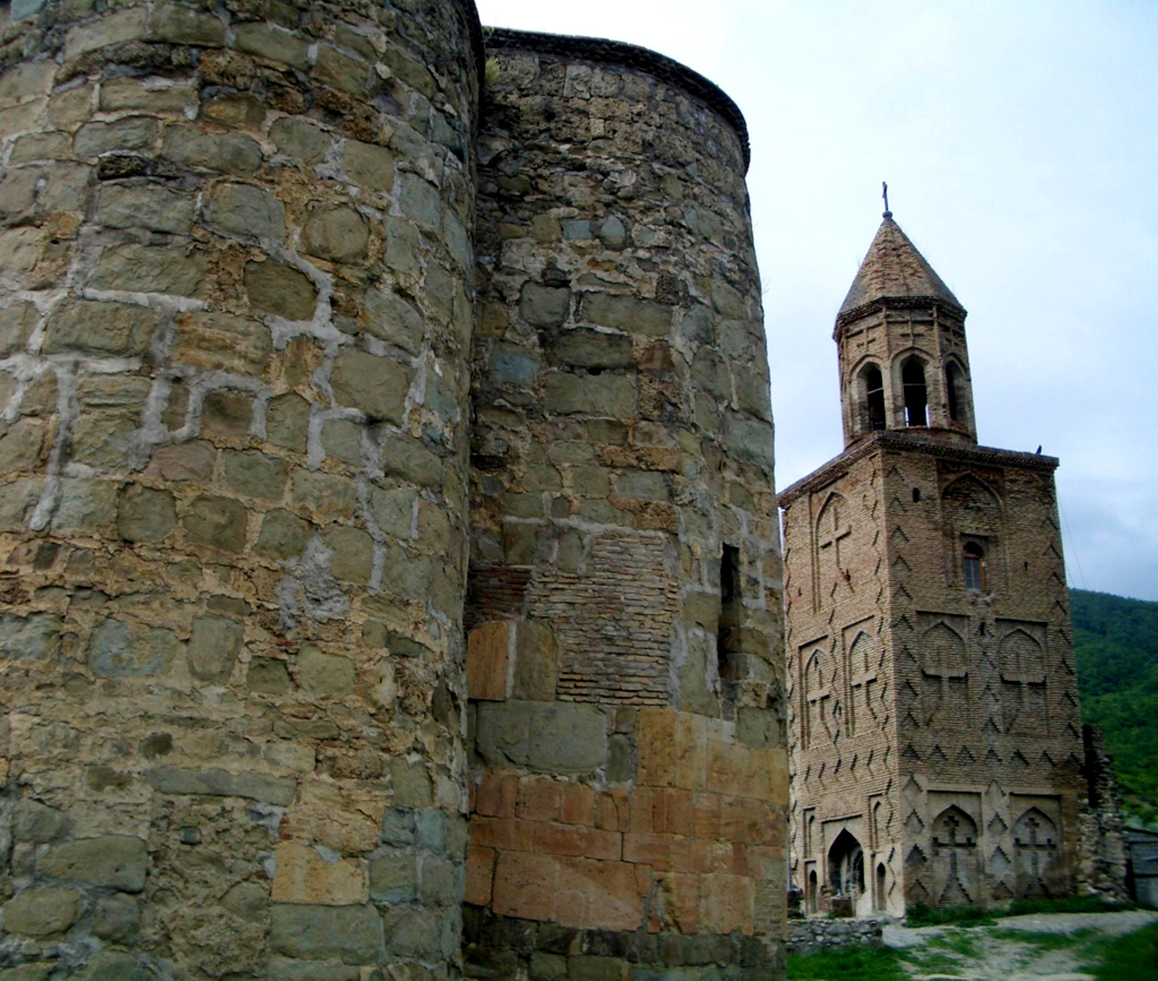 View of Apse and Bell Tower of